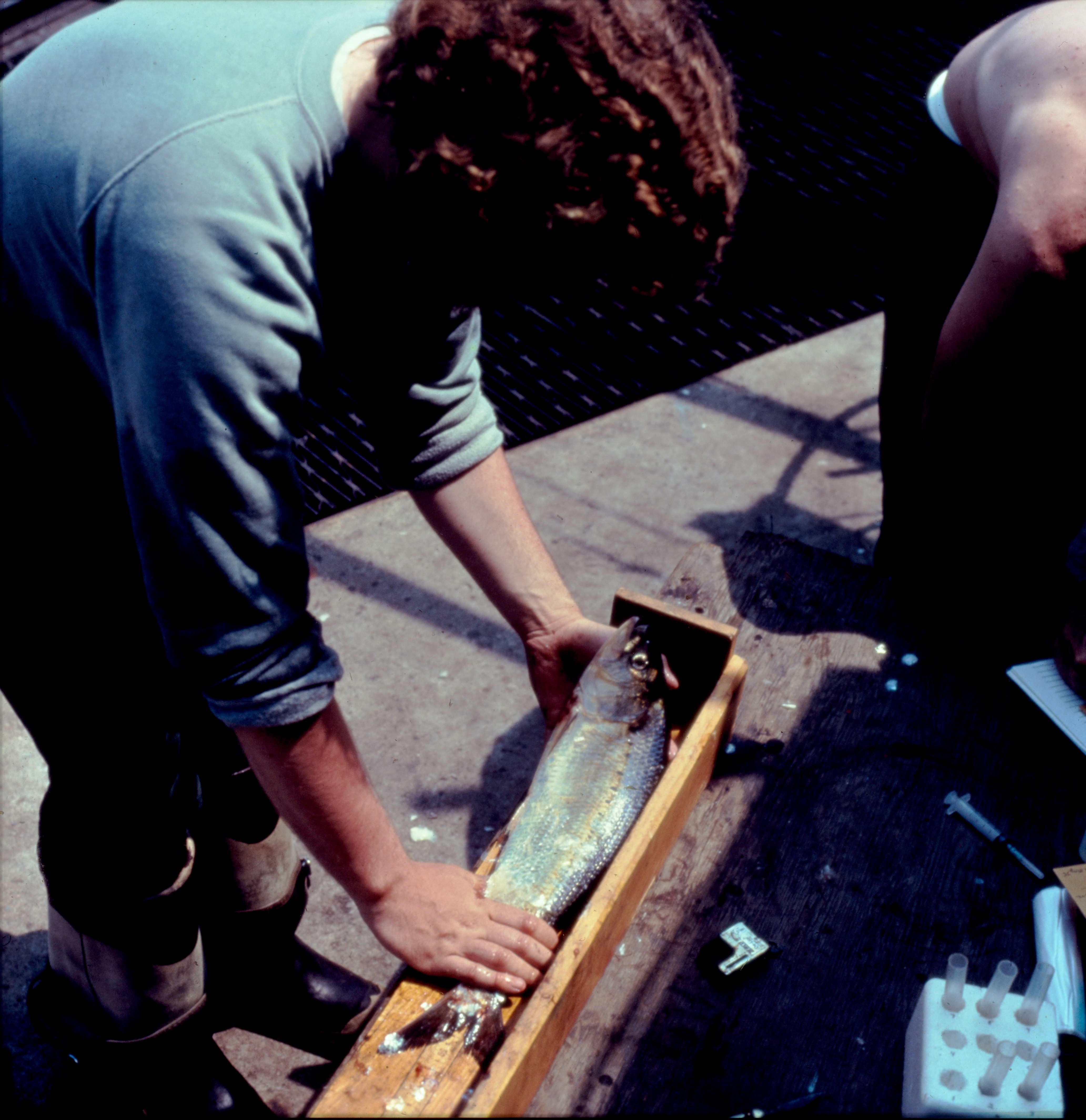 A volunteer measures an American shad during a survey at the Holyoke Dam's fish ladder